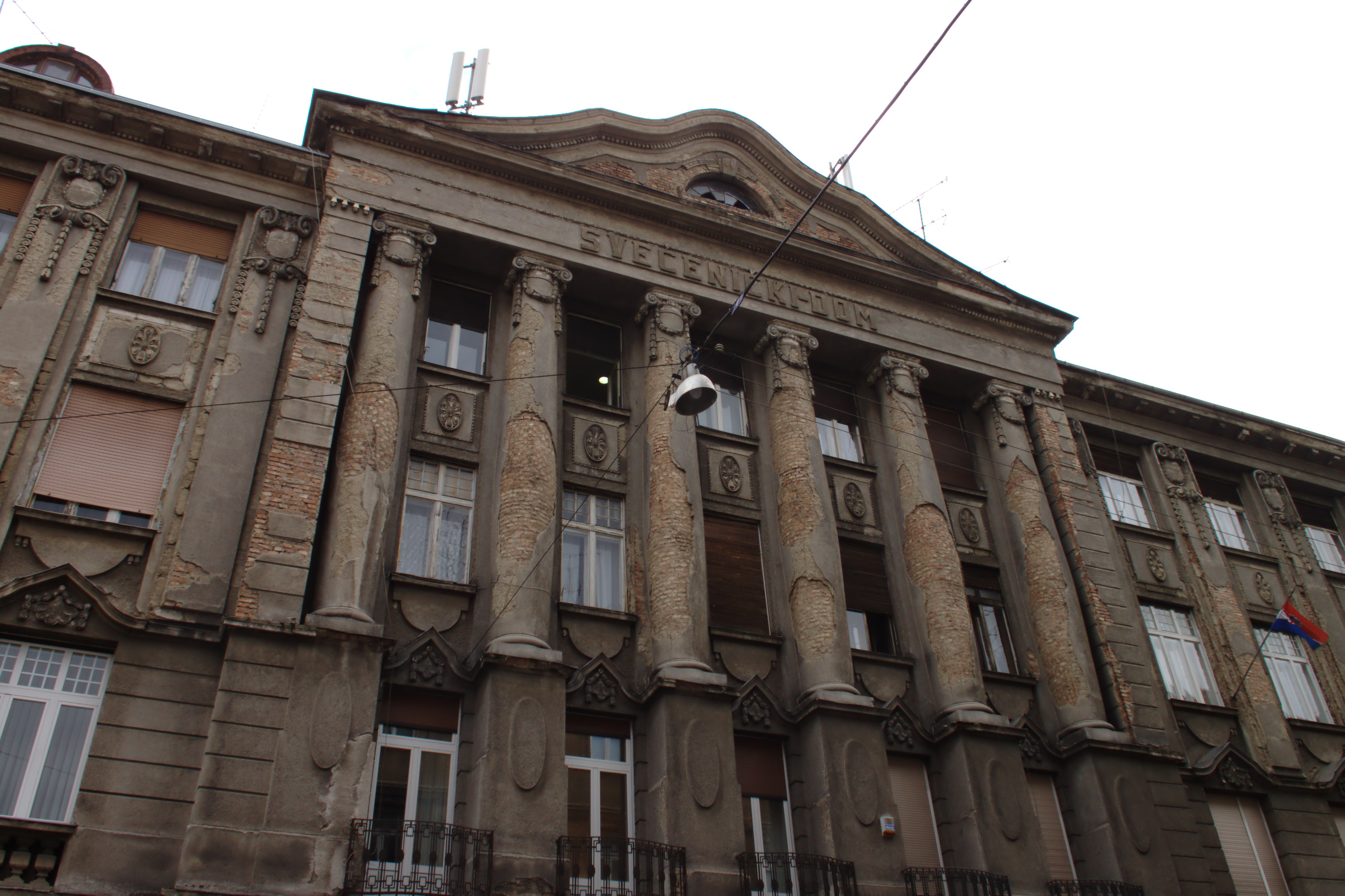 Svećenički dom (priest house) at Junija Palmotića Street, Zagreb, Croatia